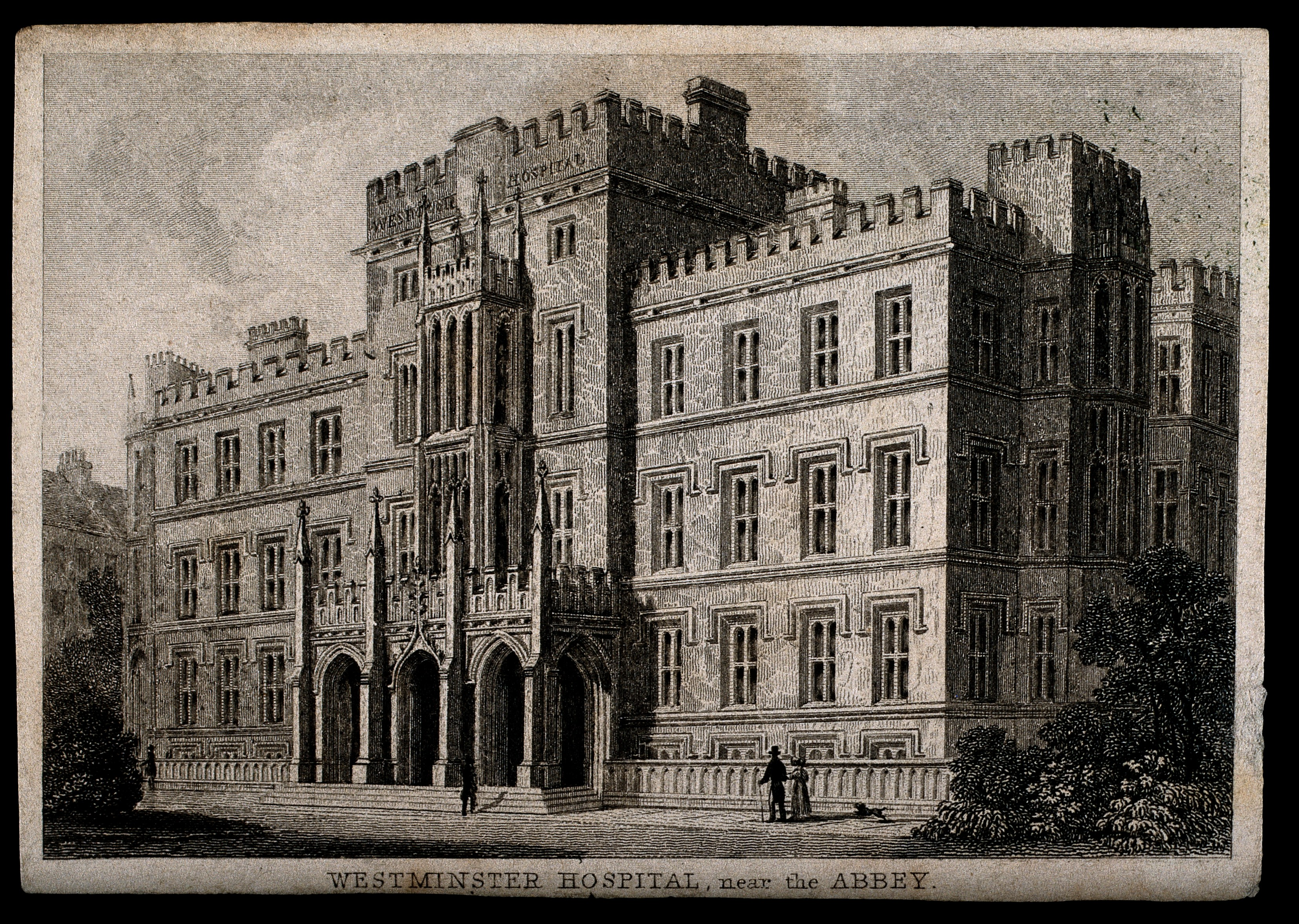 The Westminster Hospital, London. Engraving. Iconographic Collections Keywords: Charles Frederick Inwood; William Inwood; Westminster Hospital